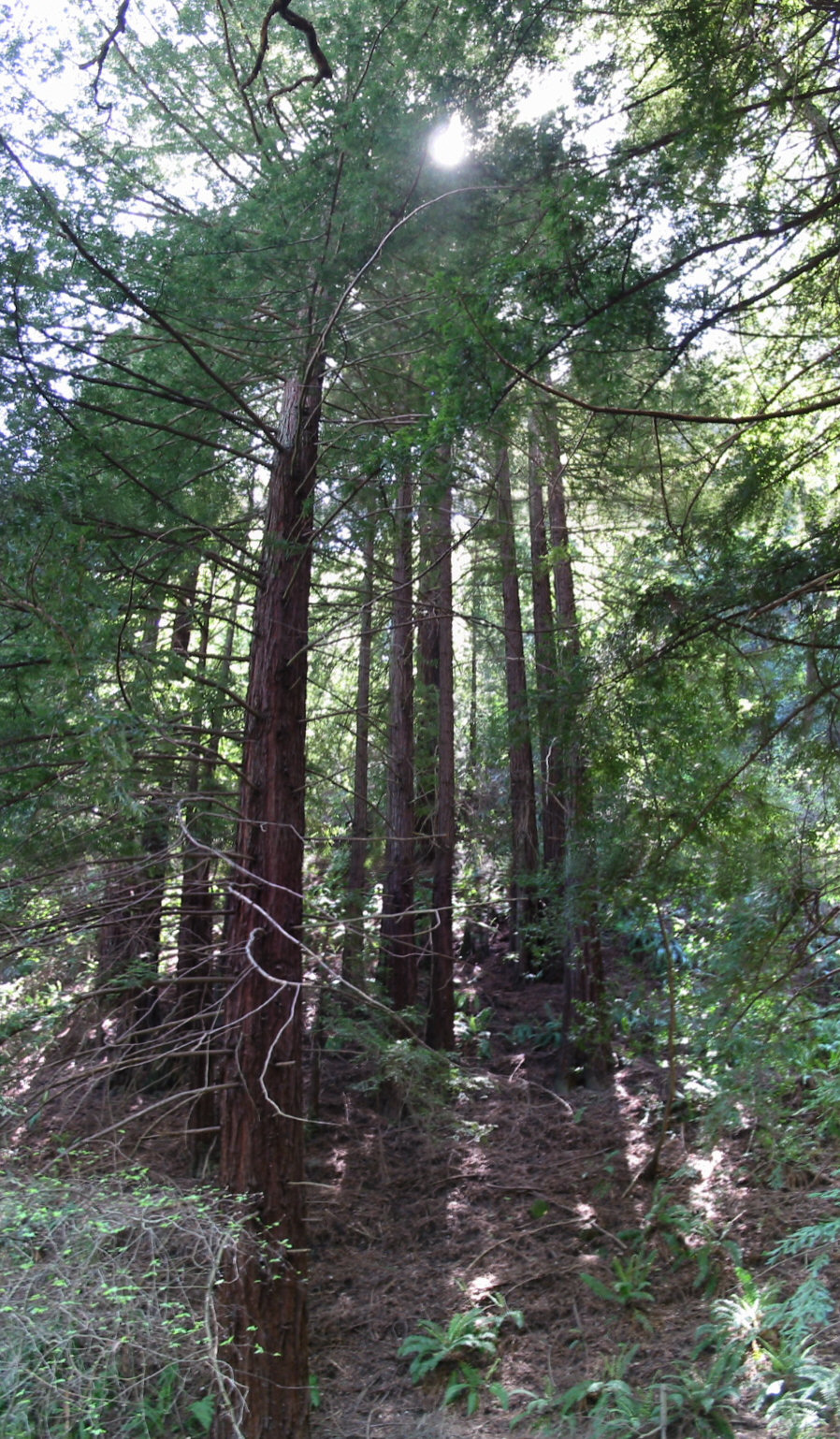 stitched-together vertical composite photo of a grouping of sequoias